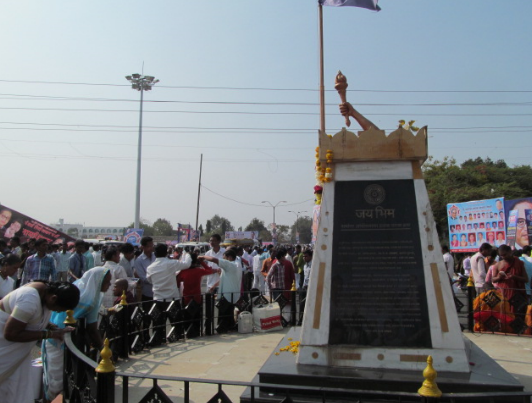 Namantar martyrs monolith - this monolith is erected in memory of the valour and the sacrifice of Dalit martyrs who sacrificed their lives during Namantar Andolan.